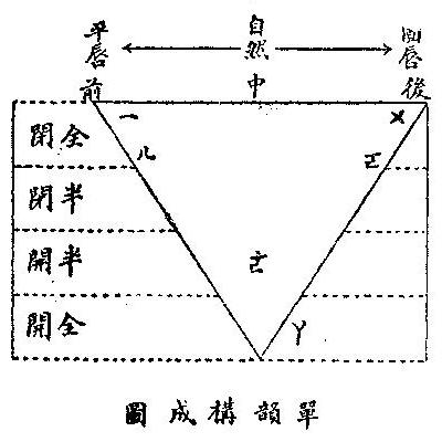 Chinese vowel diagram 1